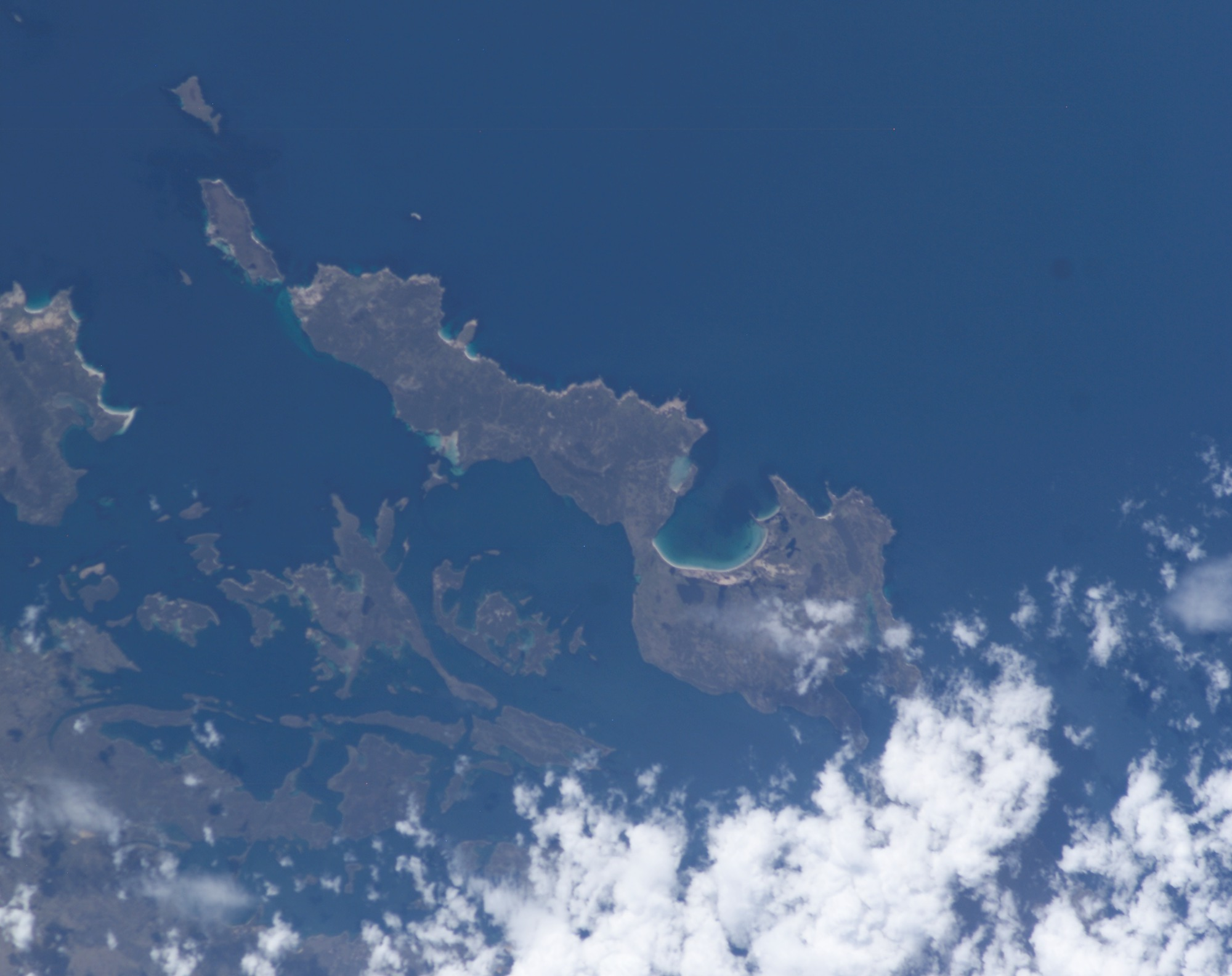 Satellite image of Pebble Island in the Falkland Islands